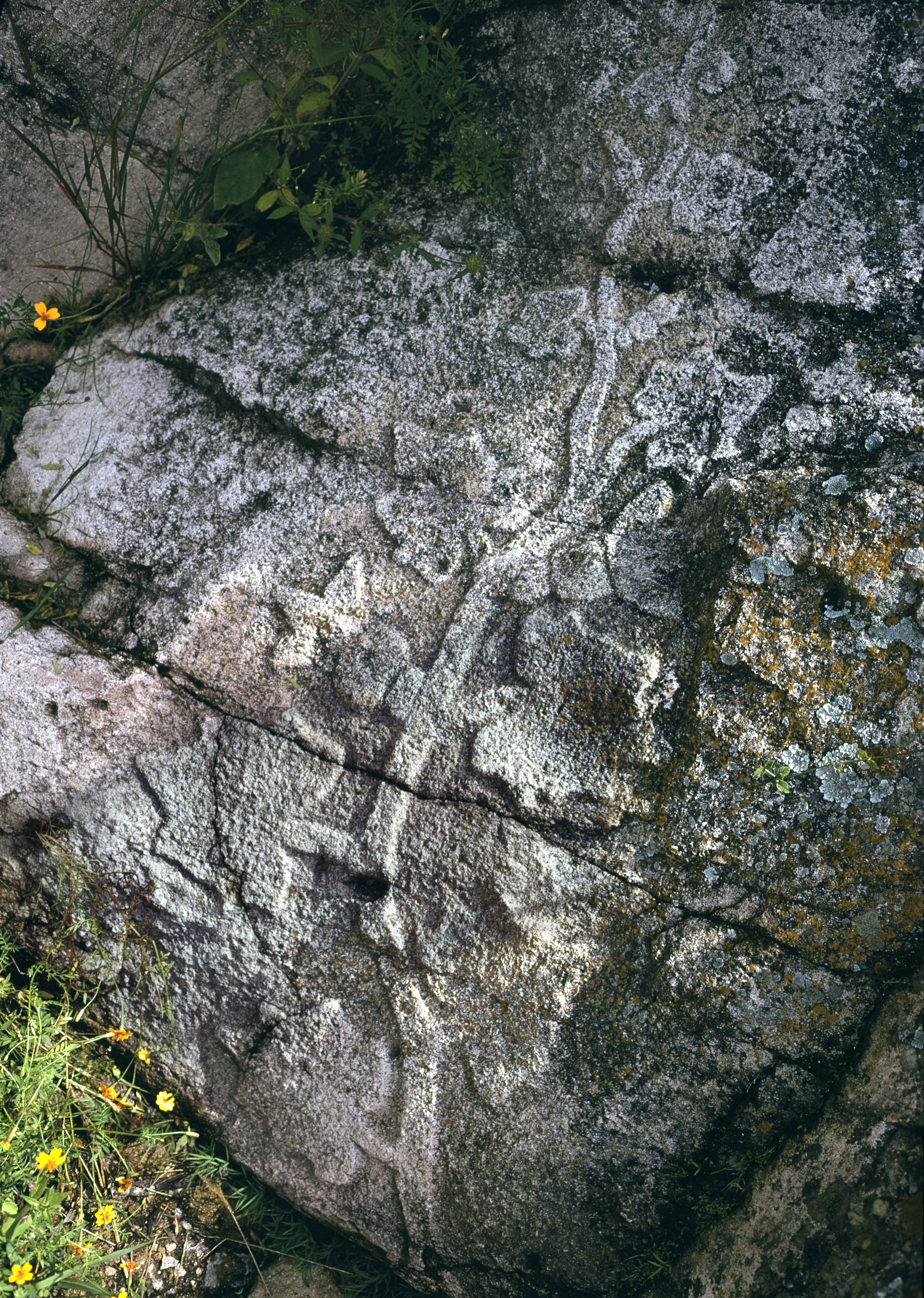 Chalcatzingo, Morelos, Mexico: Relief VI